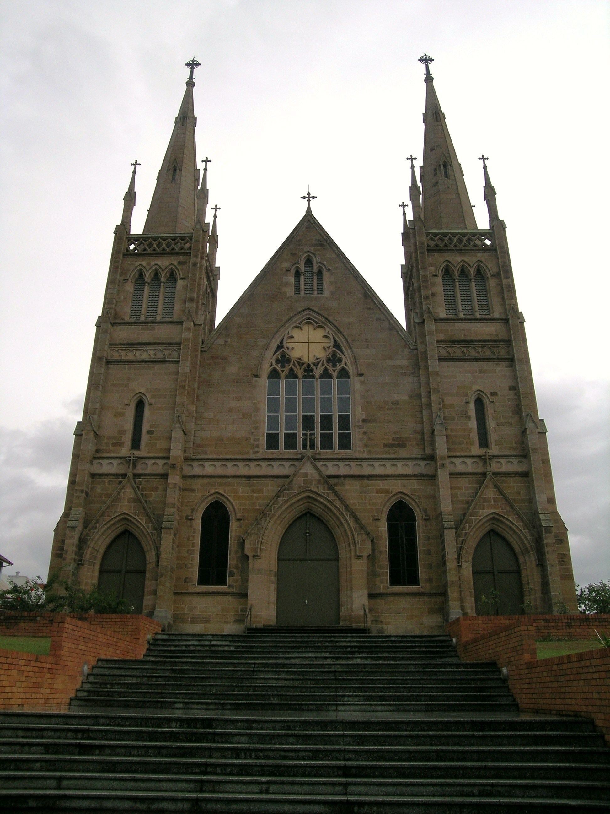 St Mary's Catholic church, built in 1904 of Helidon sandstone, Ipswich, QLD.